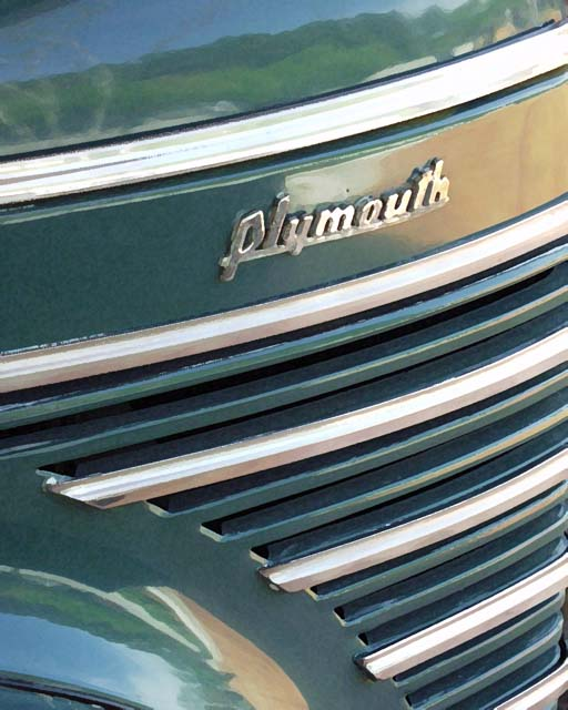 1939 Plymouth Grill detail at the Elvis Museum Tupelo, MS 2004